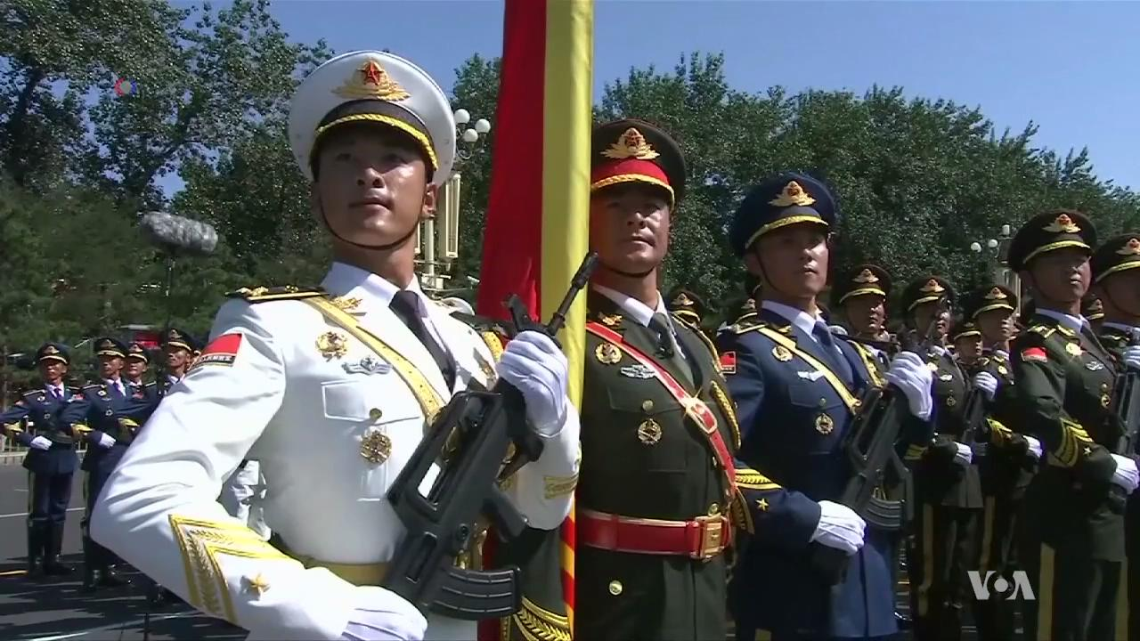 2015 China WWII Parade (screenshot)